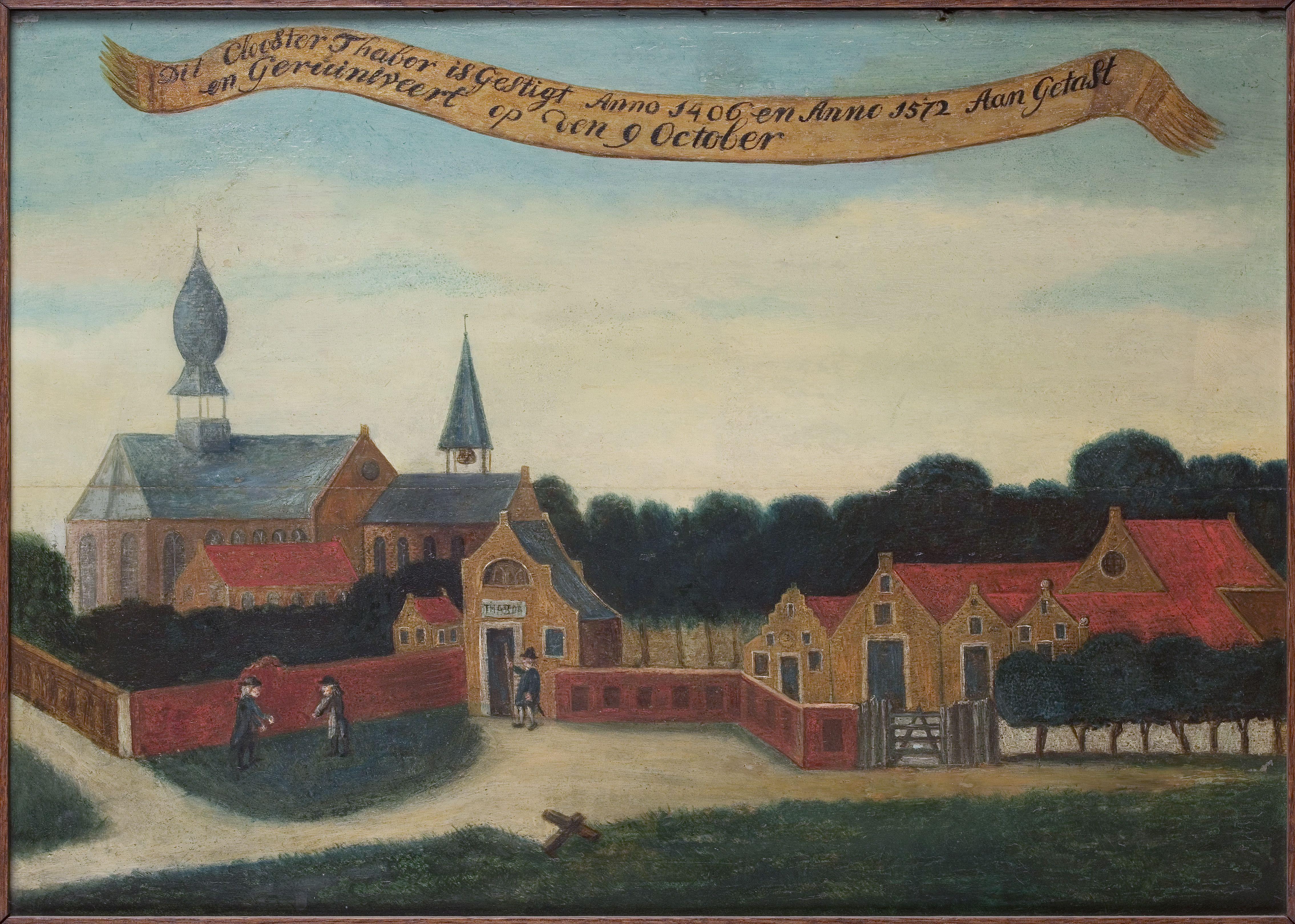 Thabor monastery